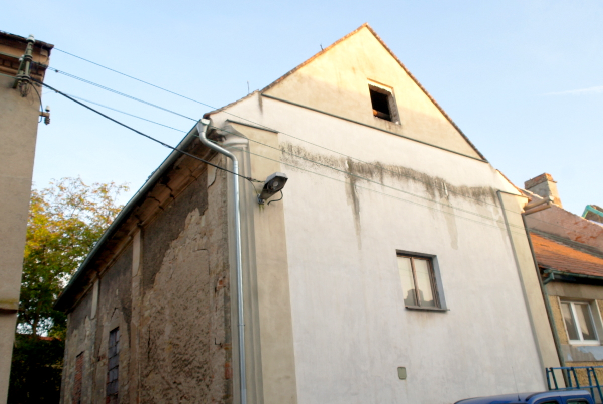 The synagogue, Ostrovní str.10, Budyně nad Ohří, Litoměřice District.